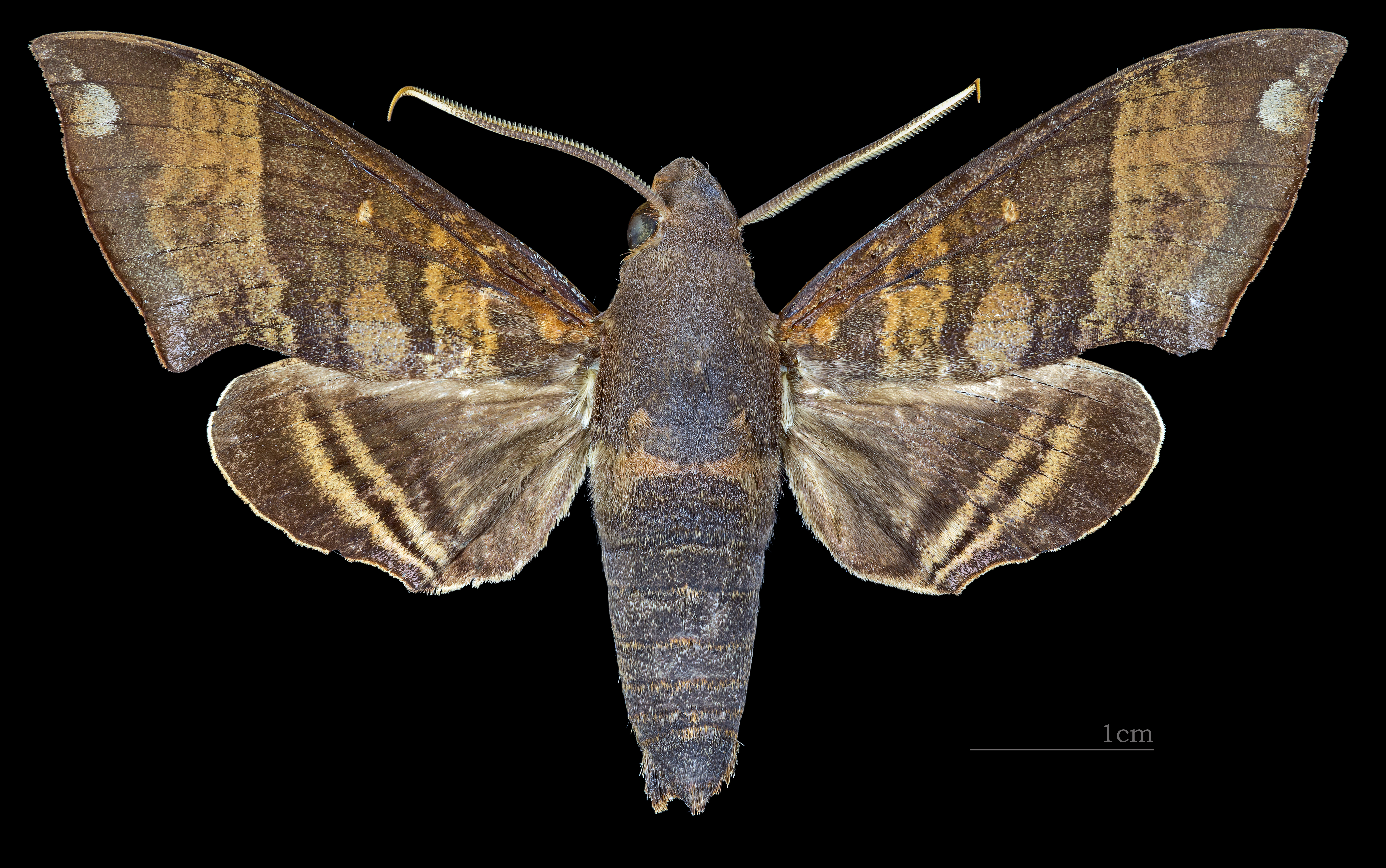 Pachygonidia caliginosa - Dorsal side